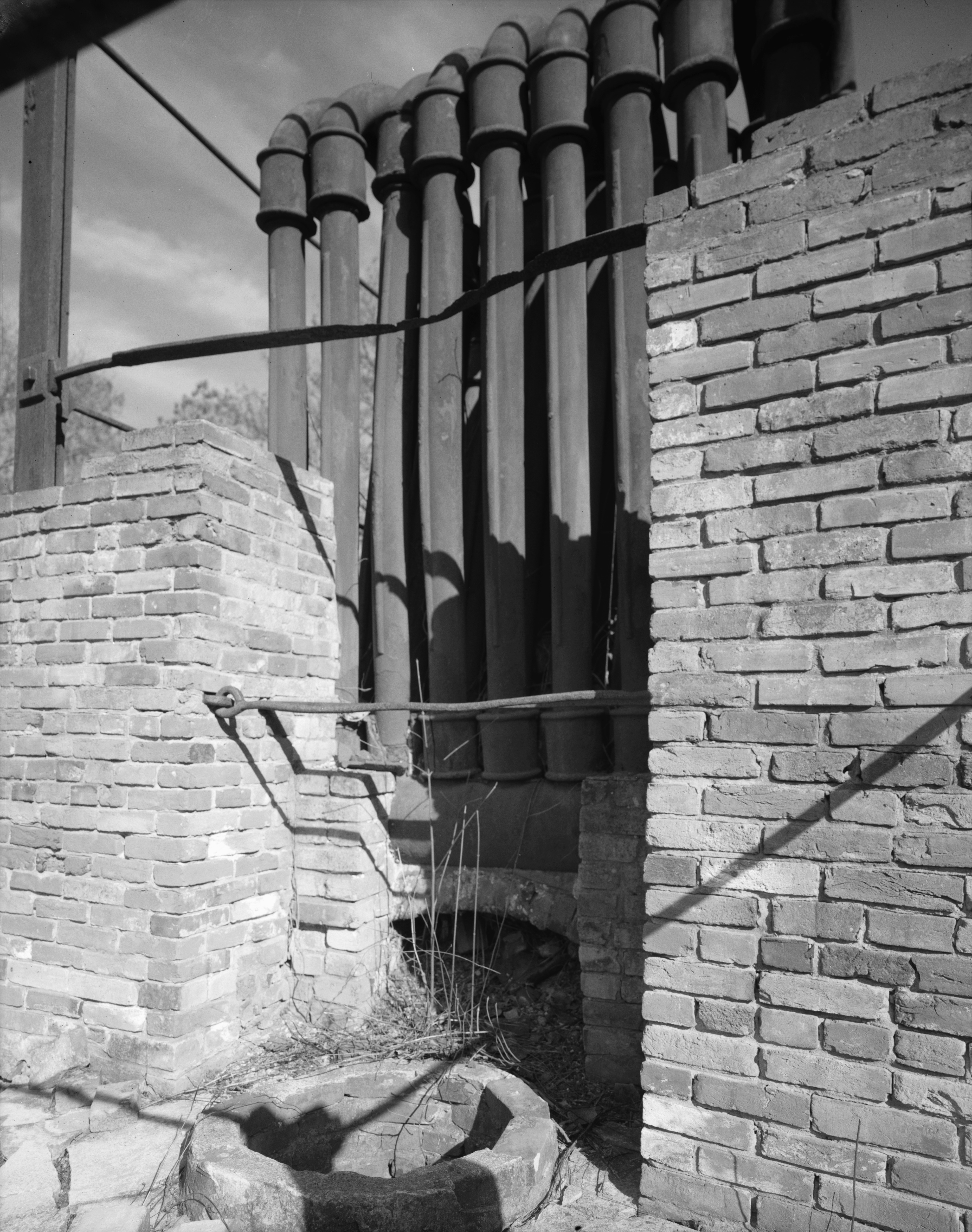 View of blast tubes at Nassawango Iron Furnace near Snow Hill, Maryland, USA